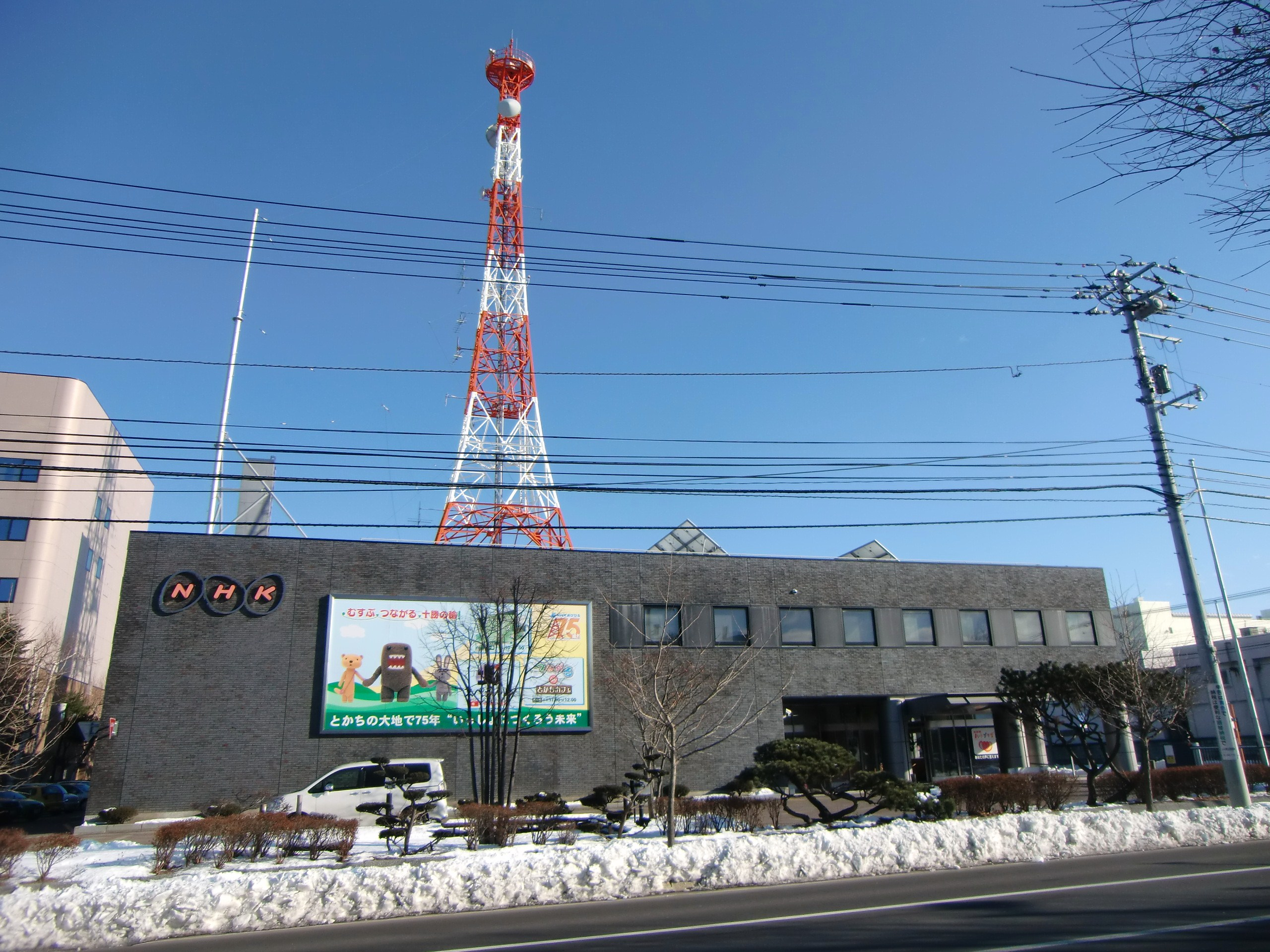 NHK Obihiro Broadcasting Station in Obihiro city, Hokkaido, Japan